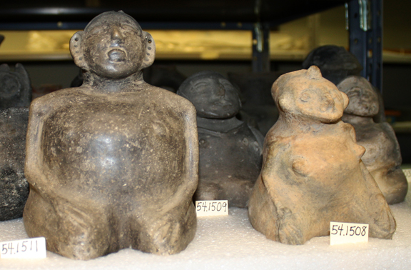 Mississippian ceramic human effigy figures. Arkansas, ca. 700-1500 CE. Collection of the Gilcrease Museum.